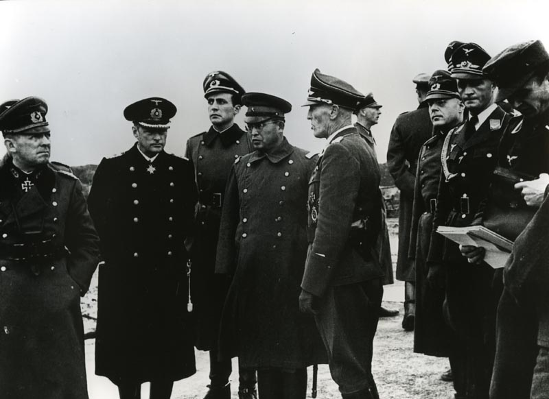 This is a photo of several high ranking officers visiting Fjell festning (MKB 11/504) probably some time in 1943, then the main armament (28,3 cm triple gun turrent form battleship "Gneisenau") were finished. The persons in the picture are (from left to right): General Nikolaus von Falkenhorst (C-in-C German military forces in Norway), Fregattenkapitän doktor Robert Morath (Seekommandant in Bergen), unknown, Makoto Onodera (Japanese Military Attaché to Sweden), Lieutenant Colonel Eberhard Freiherr von Zedlitz und Neukrich (C-in-C Luftwaffe Feldregiment 502.), two unknown, Zedlitz' Adjutant (second from the right), unknown.